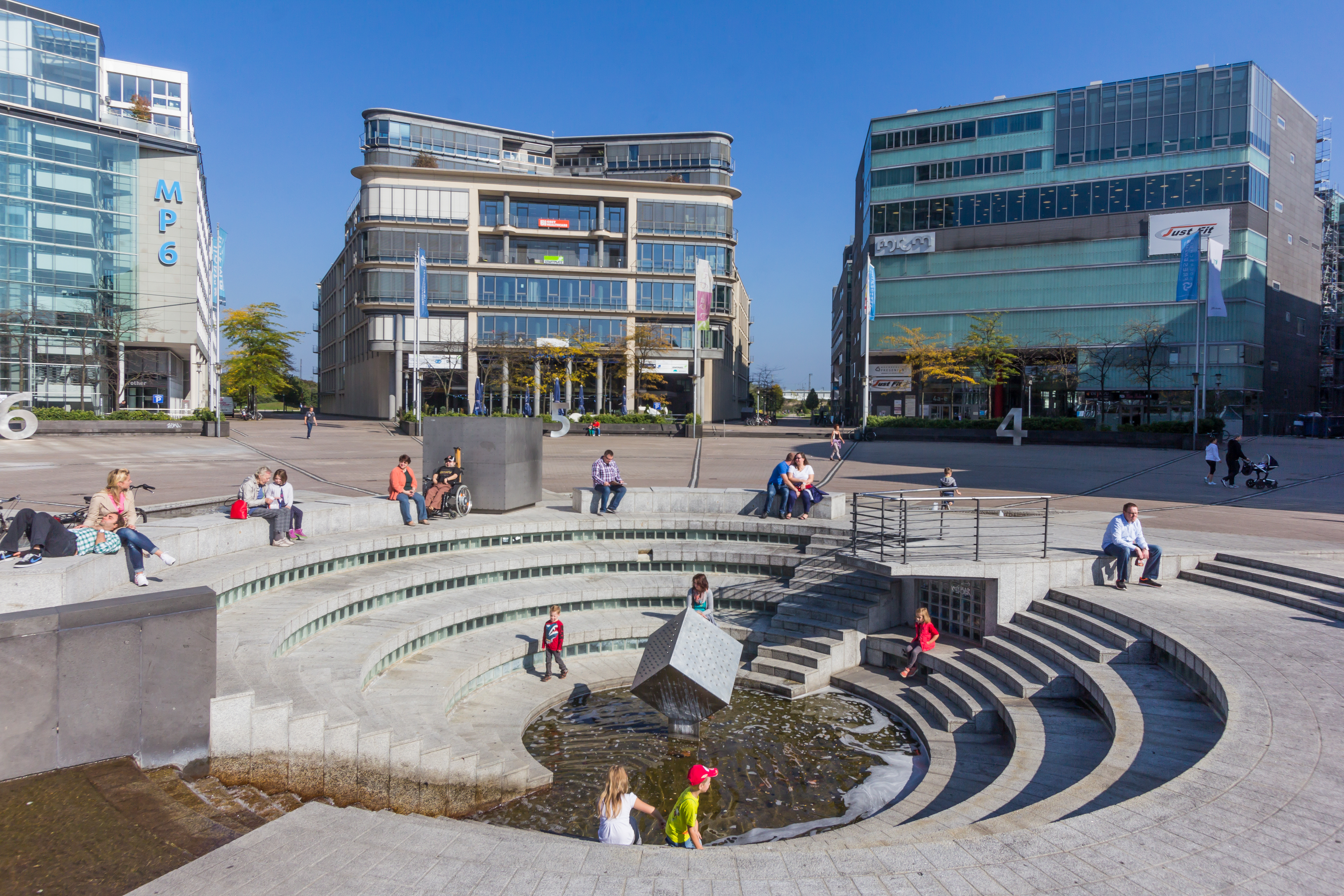 Star Pit - fountain in the Mediapark Cologne by Otto Piene